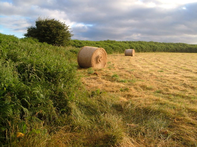 Halwell Camp. Iron Age hillfort now bisected by the A3122 Halwell-Dartmouth road. The southern half of the fort has more or less vanished but this northern semicircular bank is clearly visible.